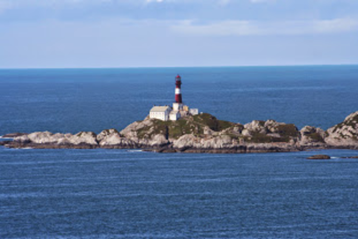 Ytterøyane lighthouse, Flora kommune, Sogn og Fjordane. Ytterøyane lighthouse is a coastal lighthouse located on an island northwest of Kinn in Flora Municipality in Sogn og Fjordane. The original 1st. order lens unit is rebuilt, but still in operation.